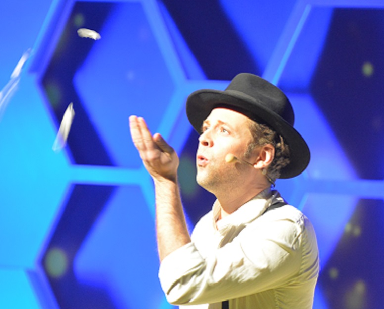 Julien Dauphin, Swedish magician, at Nobel Week Dialogue, Göteborg, 2017